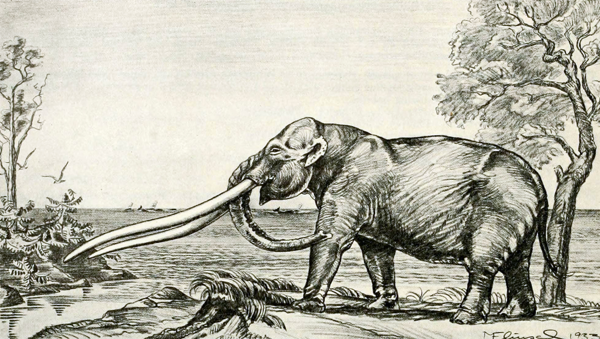 Anancus arvernensis. From Henry Fairfield Osborn's Proboscidea. Vol 1: Moeritherioidea, Deinotherioidea, Mastodontoidea. American Museum Press, 1936.